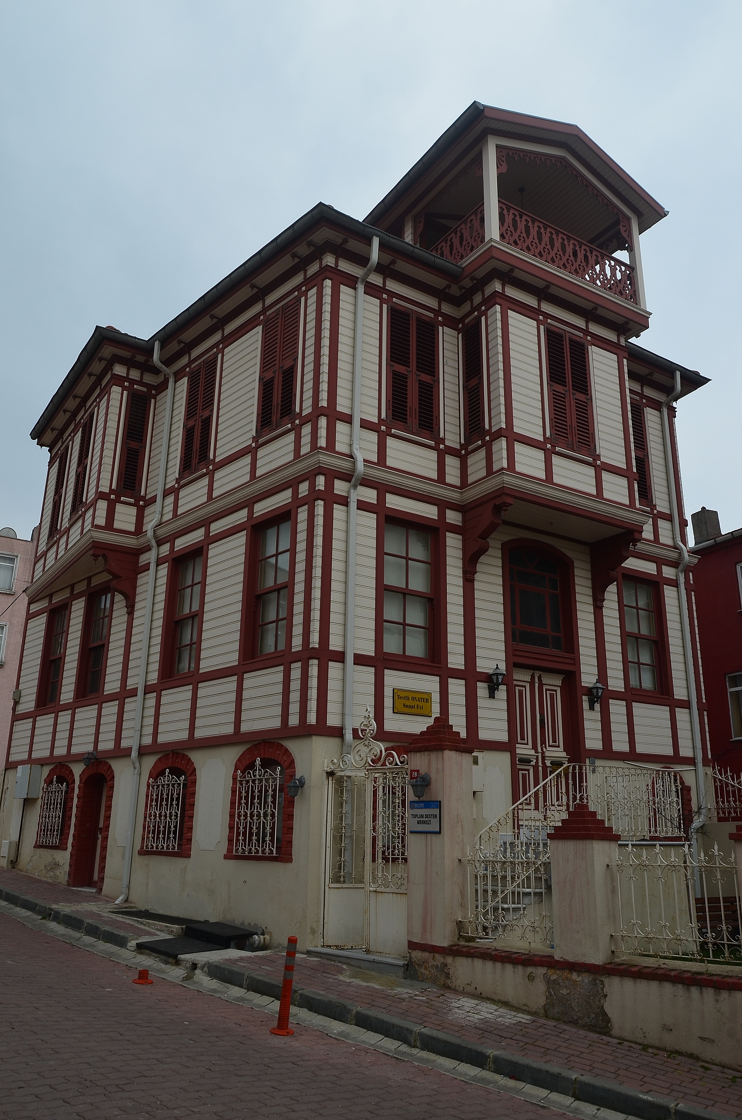 Tevfik Onater Art Center in Silivri, Istanbul - Turkey